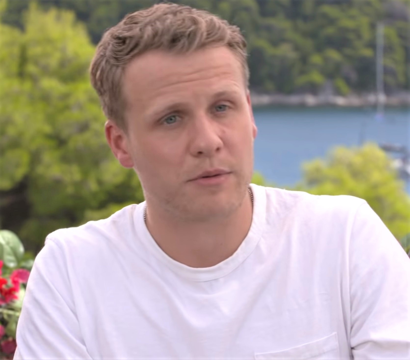 Mamma Mia 2 Cast Talk Mamma Mia 3, Love Island & Deleted Sex Scenes | MTV Movies Lily James, Jessica Keenan Wynn, Jeremy Irvine, Hugh Skinner, and Josh Dylan reveal their embarrassing moments on the set of Mamma Mia 2, the totally awks X-rated sex scene you WON’T see in cinemas, what really went on behind the scenes of the film’s spectacular Super Trouper performance and which LOVE ISLAND stars they want to join for Mamma Mia 3. We’re SOLD! - Mamma Mia: Here We Go Again is out on DVD and Blu-ray 26th November 2018. Subscribe to MTV for more great videos and exclusives! Get social with MTV @ 💋 Twitter: 🍺 Instagram: 💅 Tumblr: 🍿 Facebook: 🎷 Official